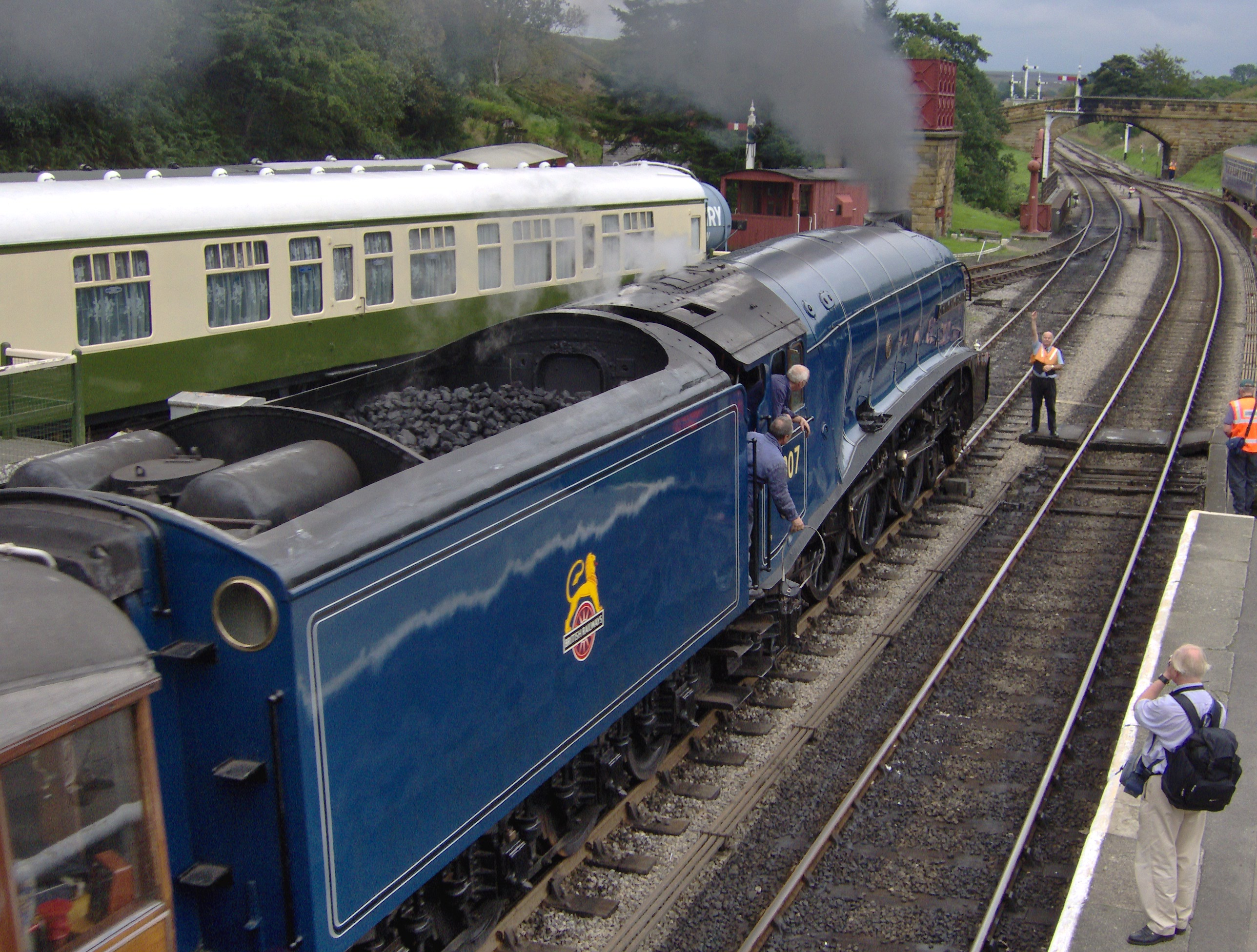 LNER A4 Class steam locomotive No. 60007 Sir Nigel Gresley painted in early British railways blue livery on the North Yorkshire Moors Railway.